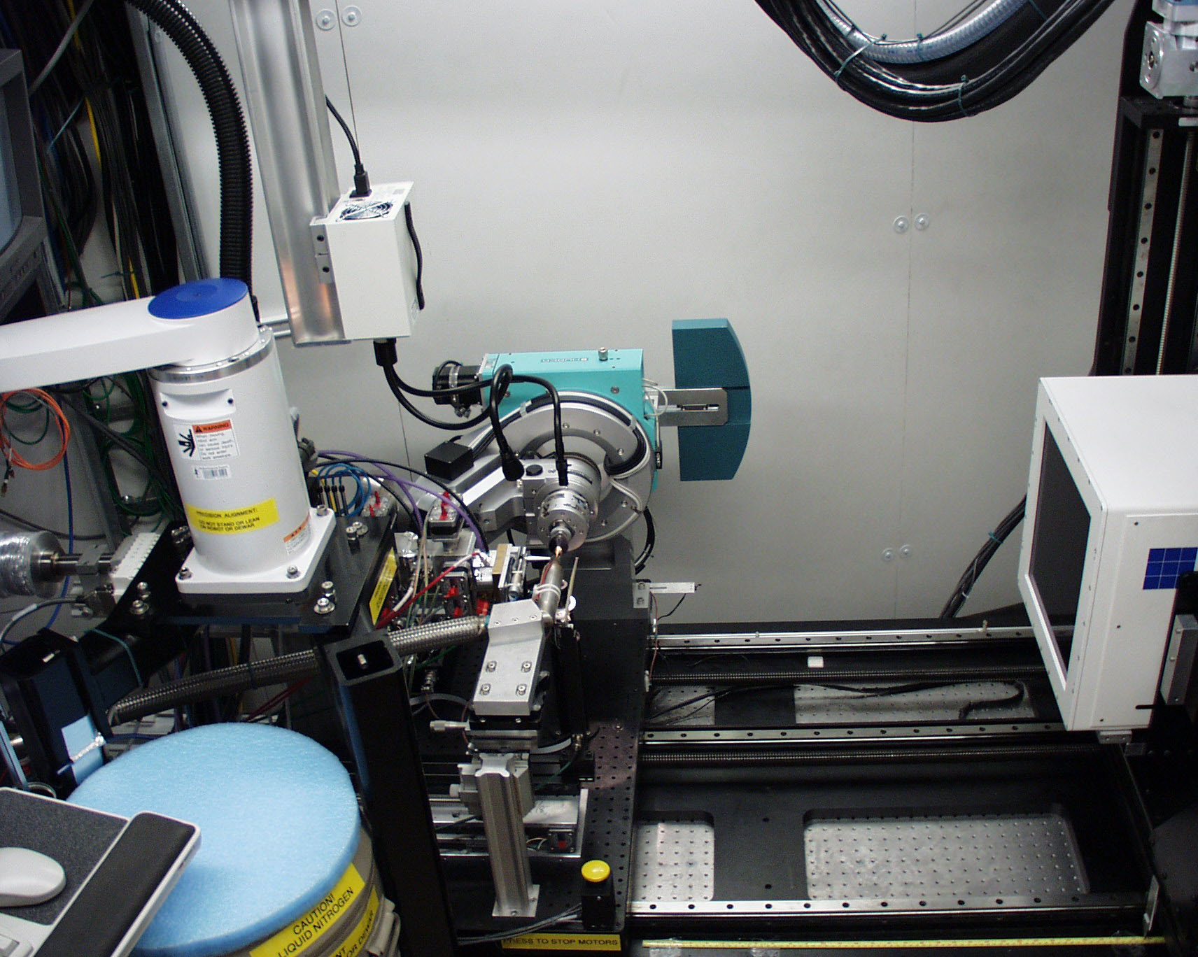 Experimental hutch of beamline BL11-1 at SSRL